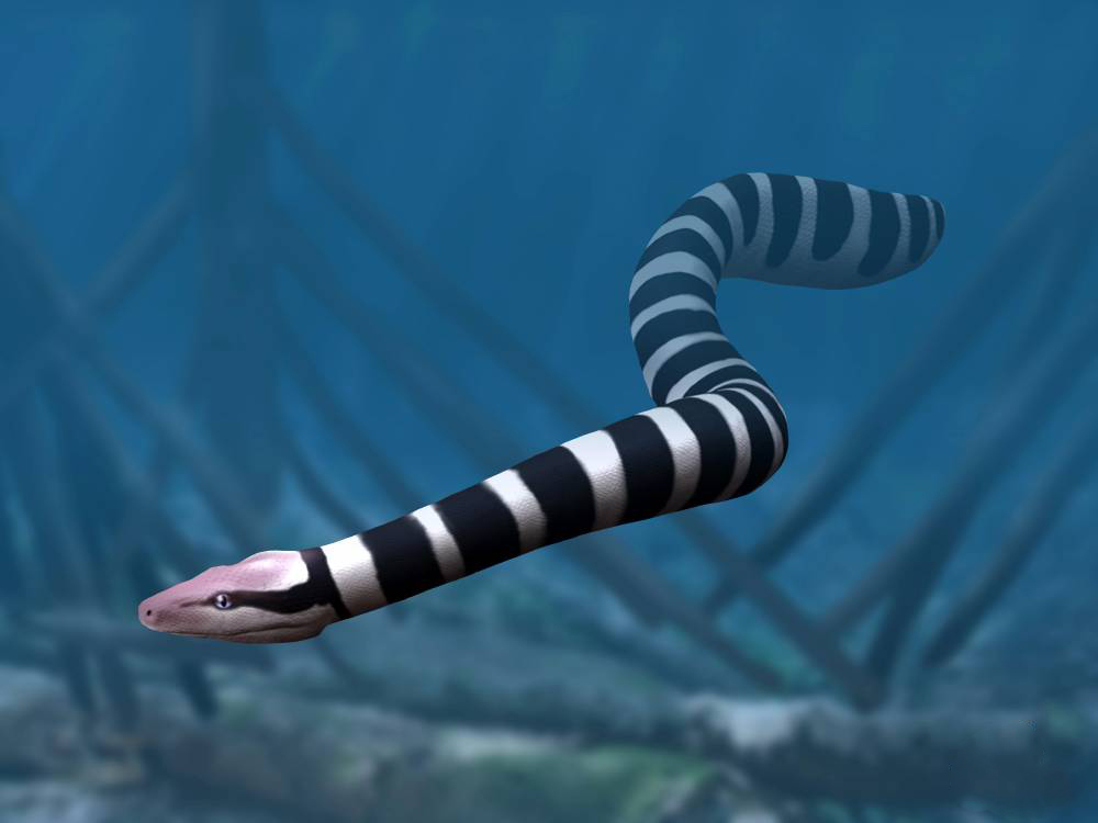 Life restoration of Palaeophis maghrebianus